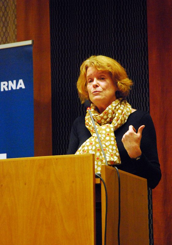 Lise Bergh, Secretary-General of Amnesty International Sweden.